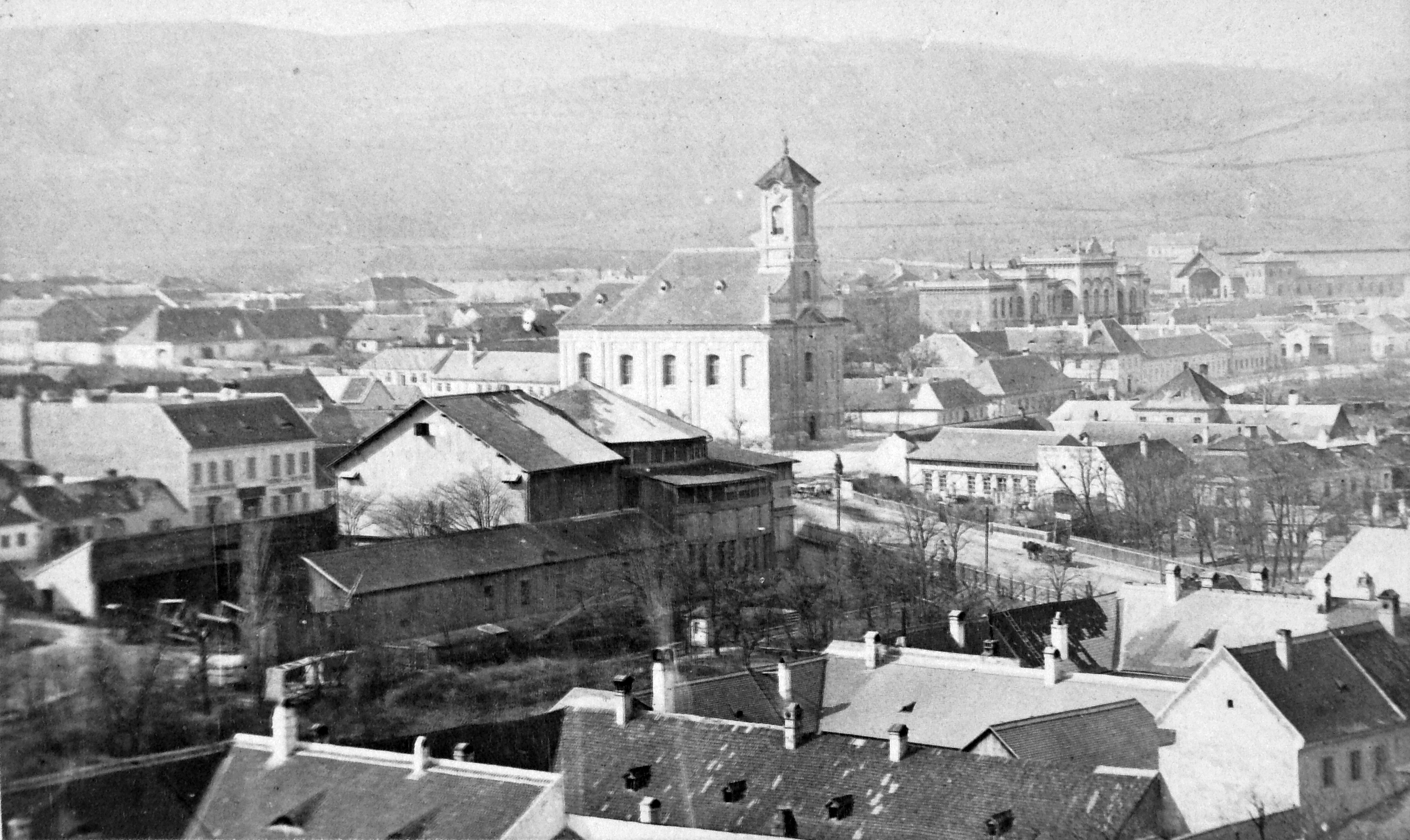 View of Krisztinaváros in 1875